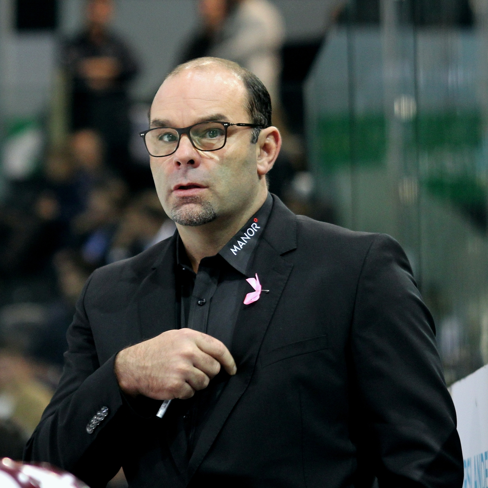 Craig Woodcroft during a Genève-Servette HC's game in 2017